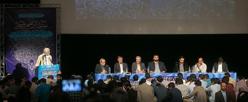 Ebrahim Raisi supporters campaign in Tehran